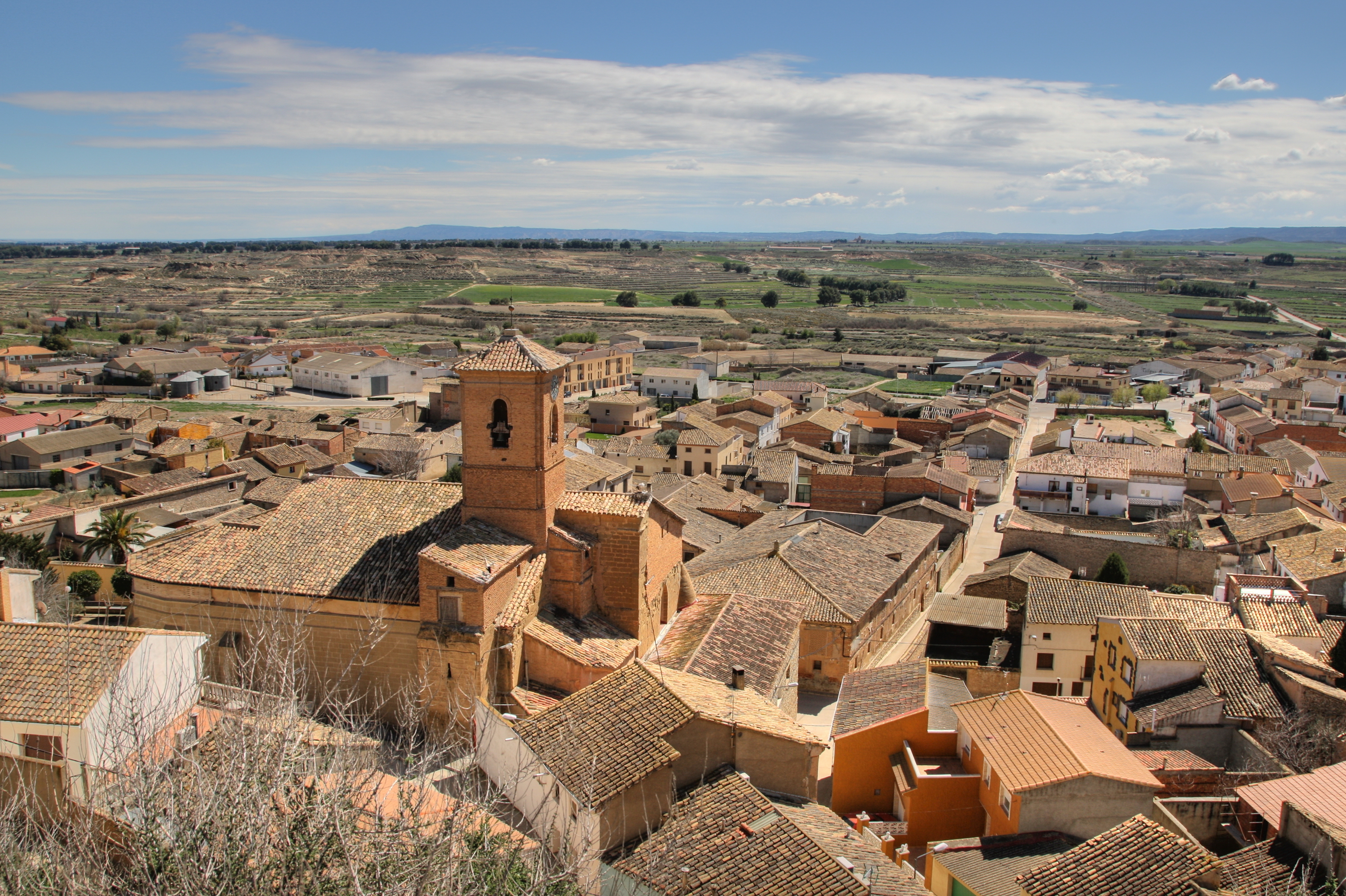 Panoramic view of Lanaja (Huesca).